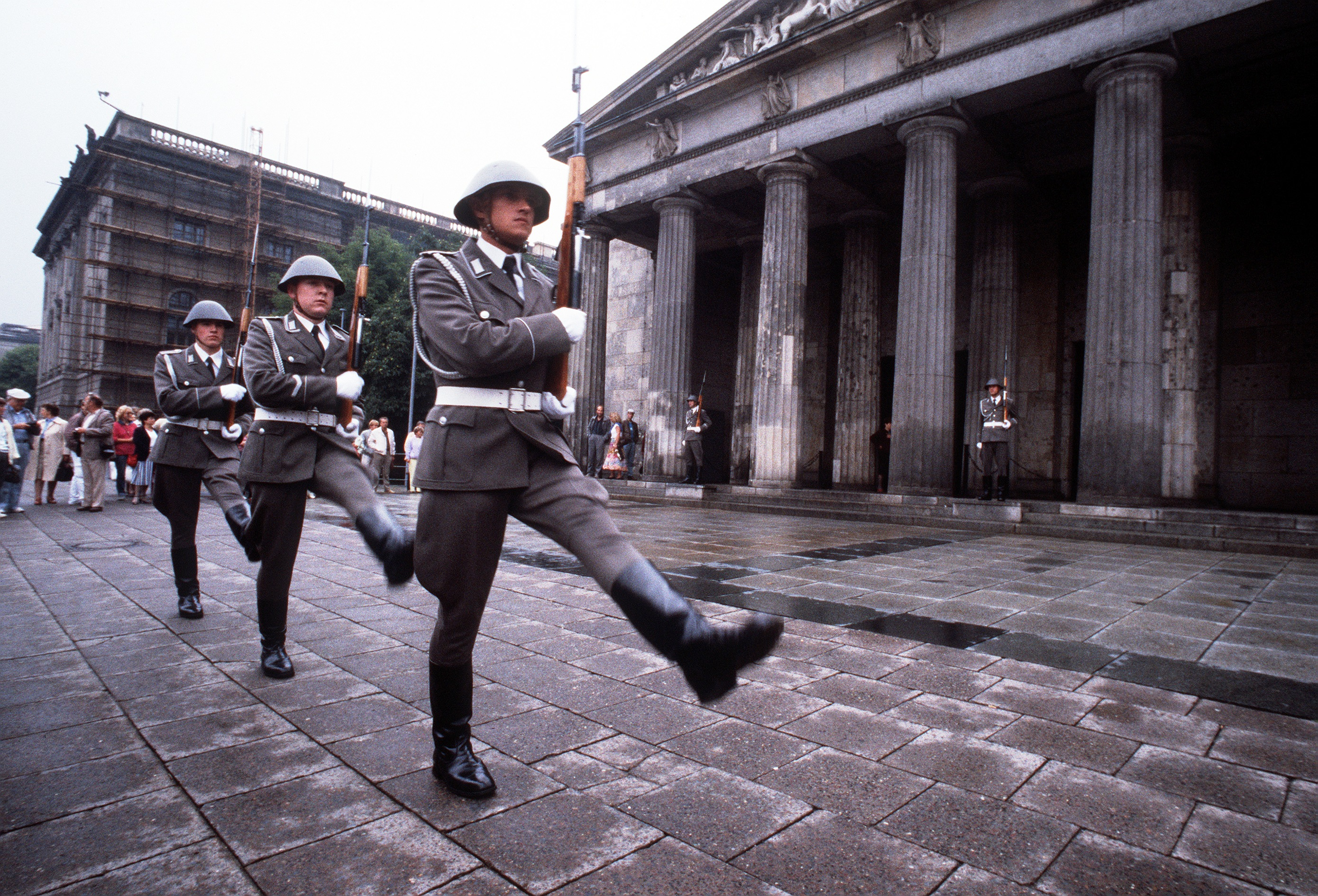 Changing of the guard takes place at the 19th-century Neue Wache. The building, located in East Berlin, was dedicated as a "Memorial to the Victims of Fascism and Militarism" following World War II.